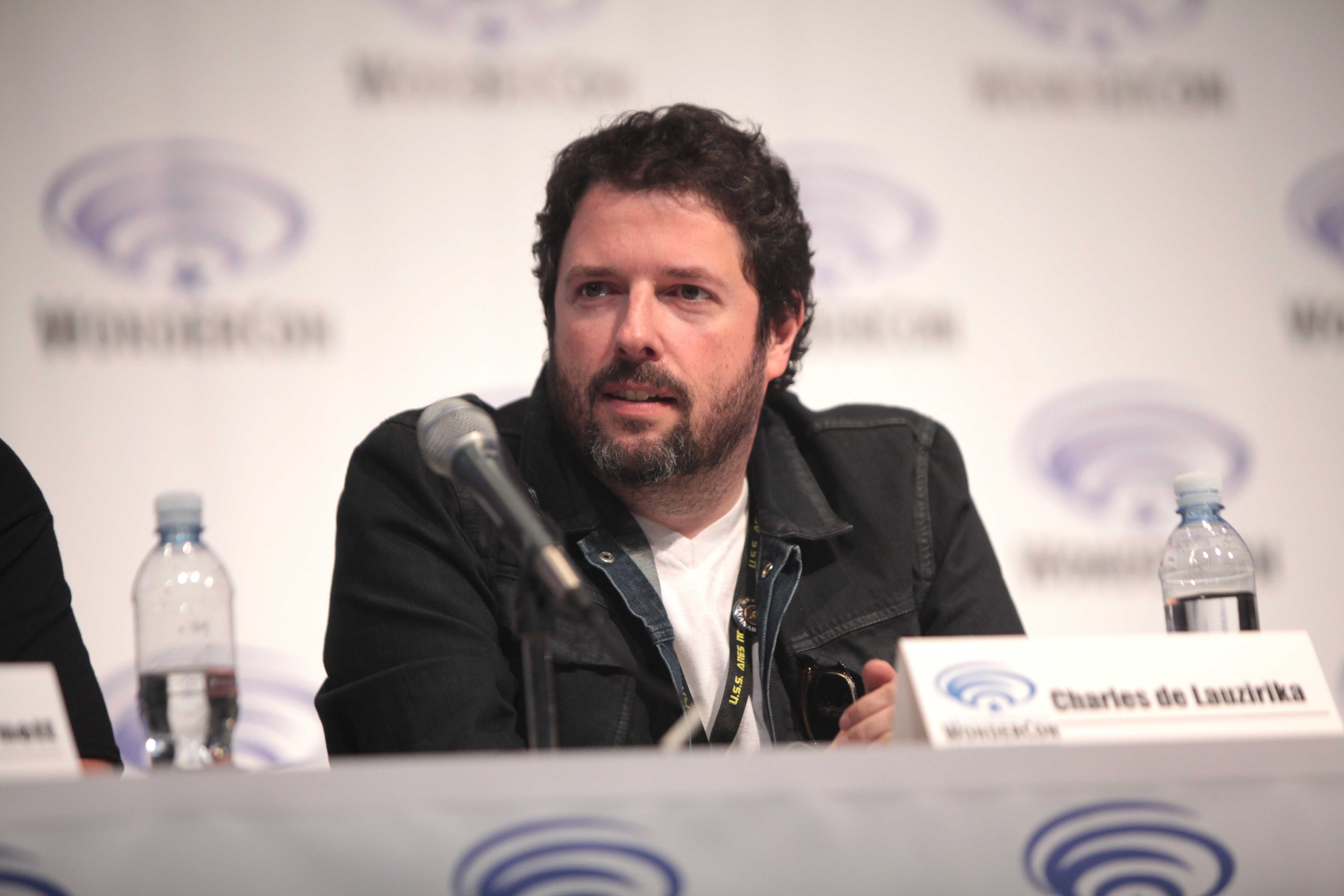 Charles de Lauzirika speaking at the 2015 Wondercon, for "2015: Greatest Geek Year Ever?", at the Anaheim Convention Center in Anaheim, California.